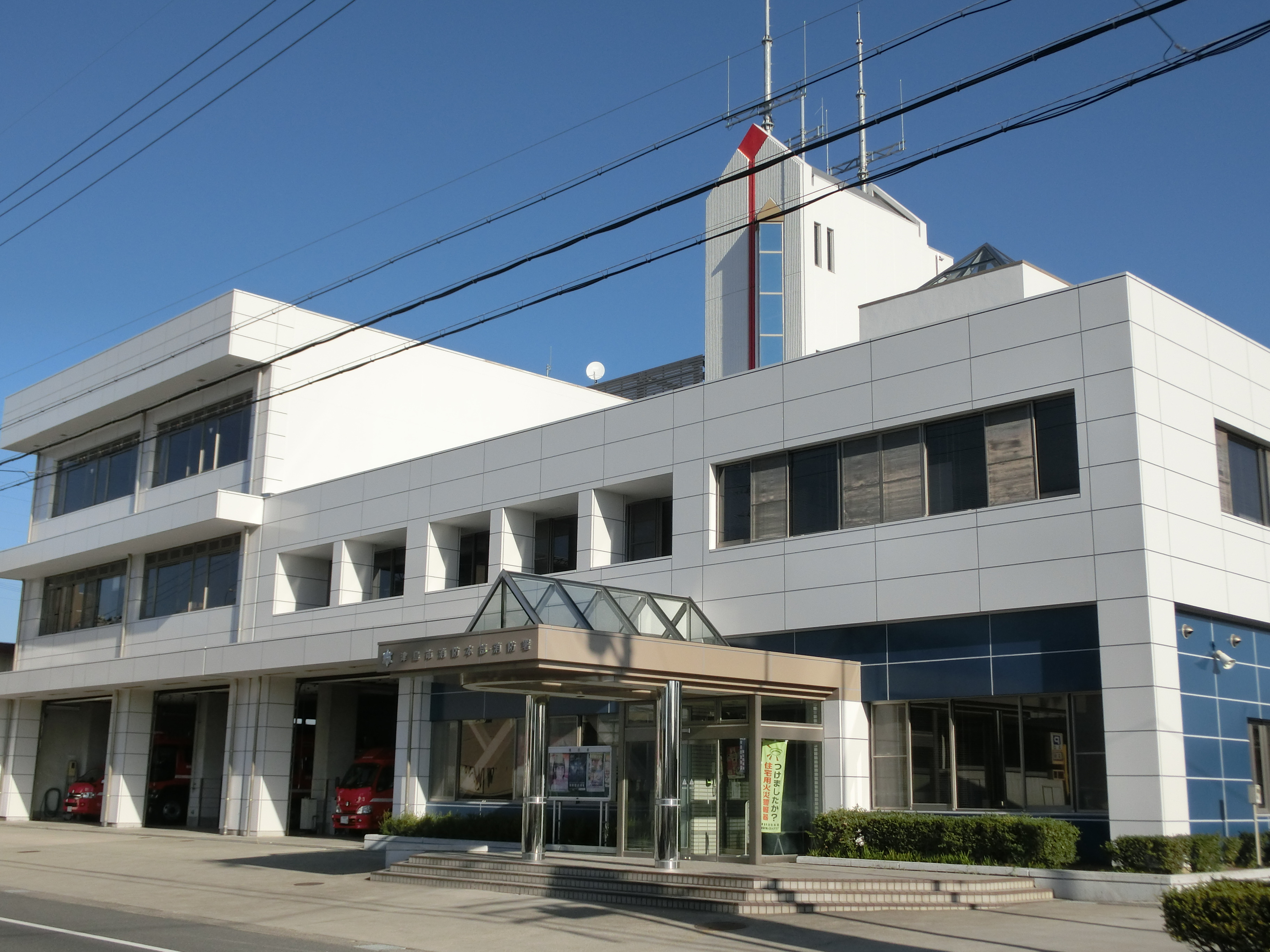 Tsushima City Fire Department (Aichi)